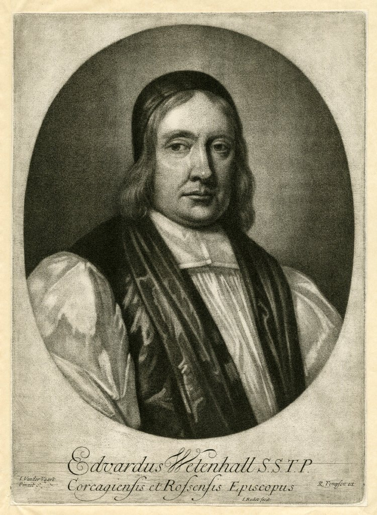 Portrait of Edward Wetenhall, Bishop of Kilmore and Ardagh. Print made by Isaac Beckett after Jan van der Vaart. Published by Richard Tompson about 1682-1693.